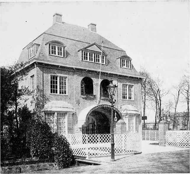 Jan Wils (architect). Automobile repair shop Stikkel, Olt & Tenzeldam, Kennemerstraatweg 6, Alkmaar. 1912.